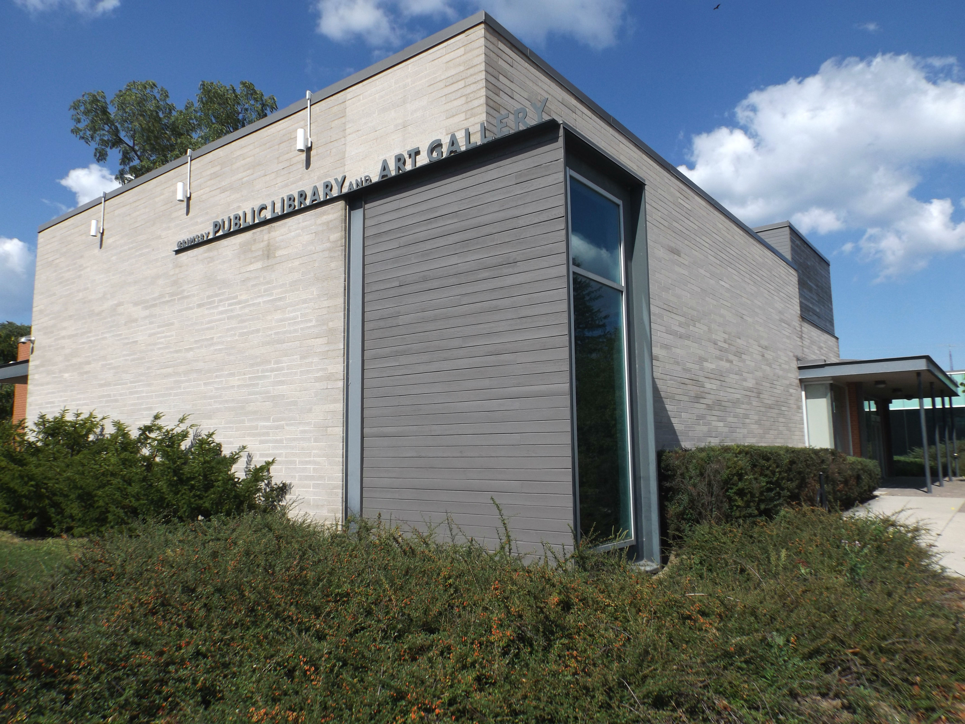 Built in 2004, this building houses the Grimsby Public Library and Art Gallery.